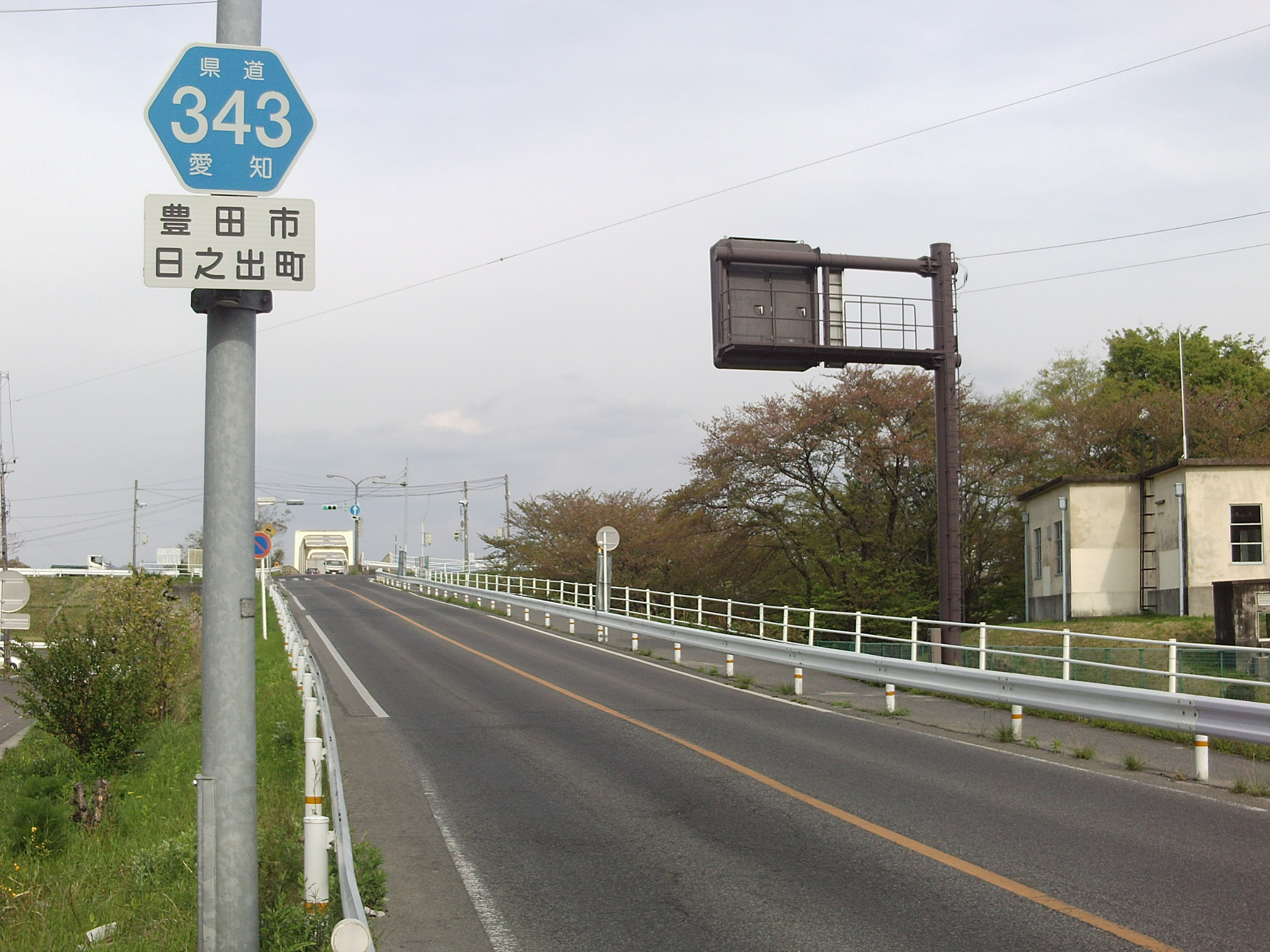 Aichi prefectural road No.343 in Hinodecho, Toyota, Aichi.